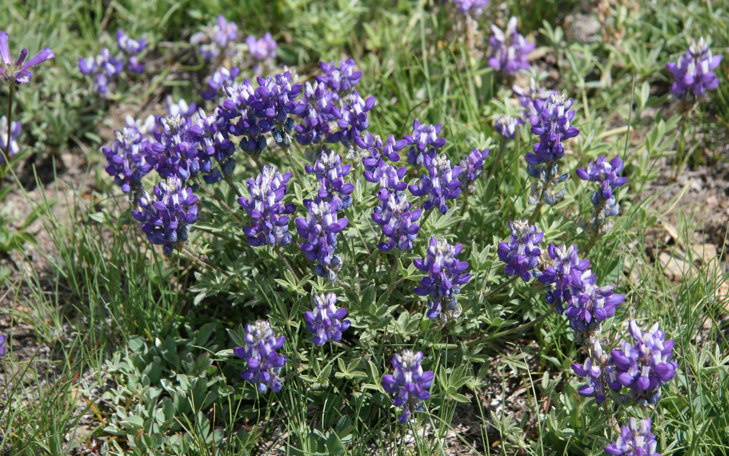 Brewer's lupine (Lupinus breweri), at north end of Duck Lake, John Muir Wilderness, Sierra Nevada mountains, California.